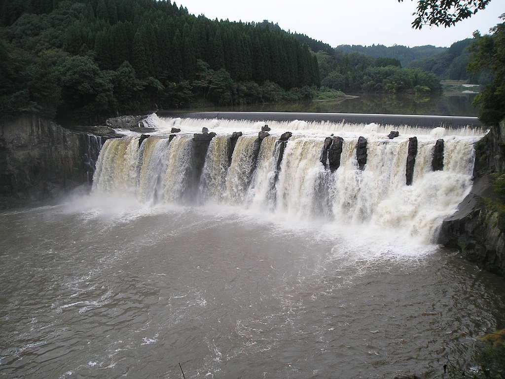 Chinda Waterfall, Bungo-Ono City, Oita